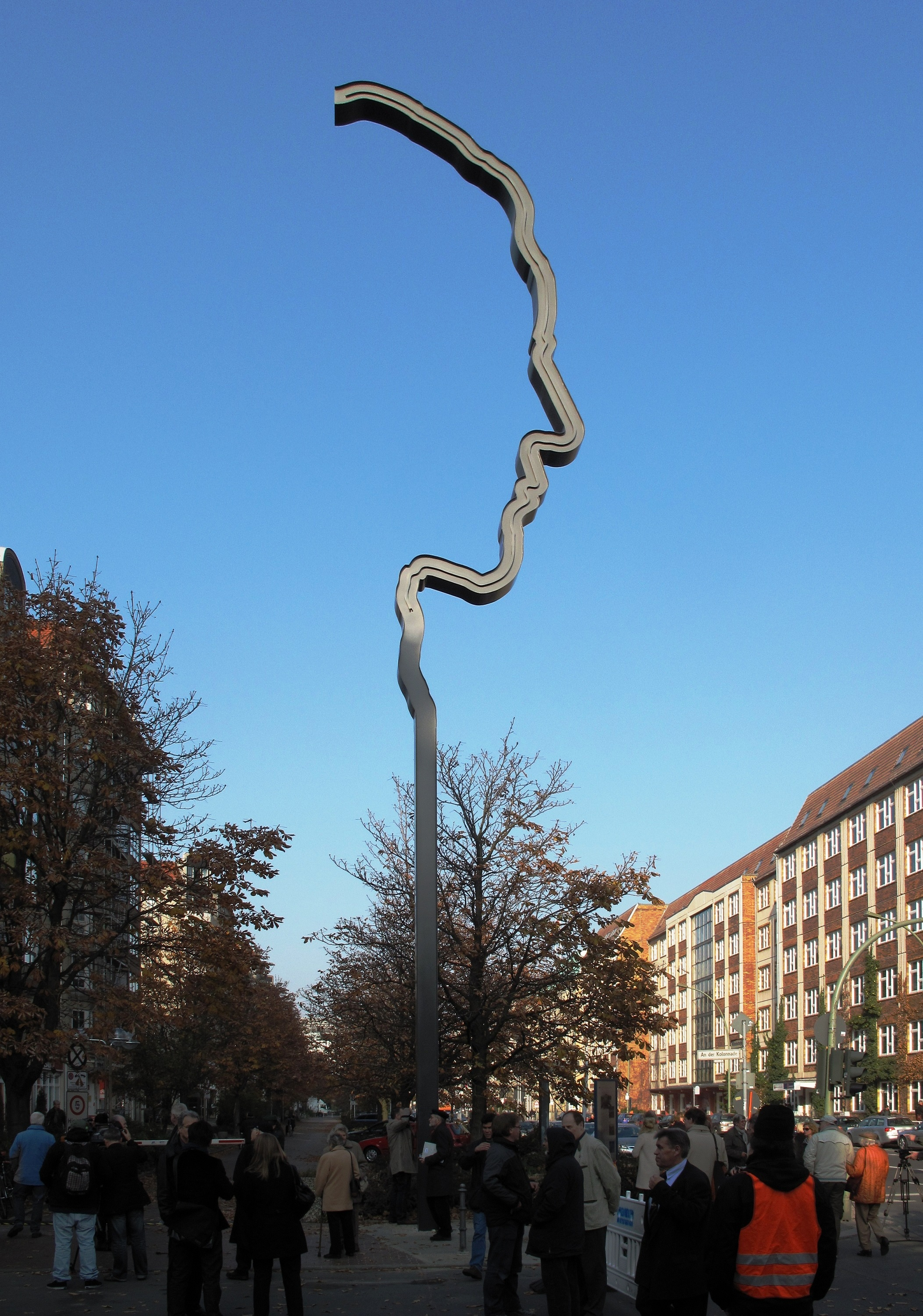 The historical marker Denkzeichen Georg Elser is a sculpture in Berlin-Mitte commemorating to the German opponent of Nazism and Hitler-assassin Georg Elser. The 17-meter high sculpture was created by the artist Ulrich Klages and was opened to the public on 8 November 2011. It is situated at the corner Wilhelmstraße/An der Kolonnade and is completed by two quotes from Elser, that were set into the sidewalk, and by an information board.